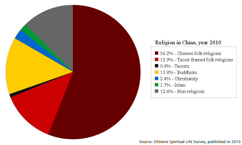 The graphic shows the religious affiliations in China according to a survey published in 2010.